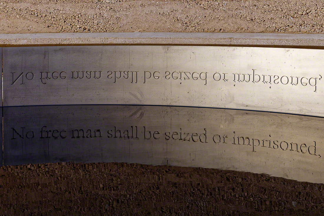 Public art 'Writ In Water' designed by artist Mark Wallinger with architects Studio Octopi & installed at Runnymede to commemorate Magna Carta - interior shot of namesake feature